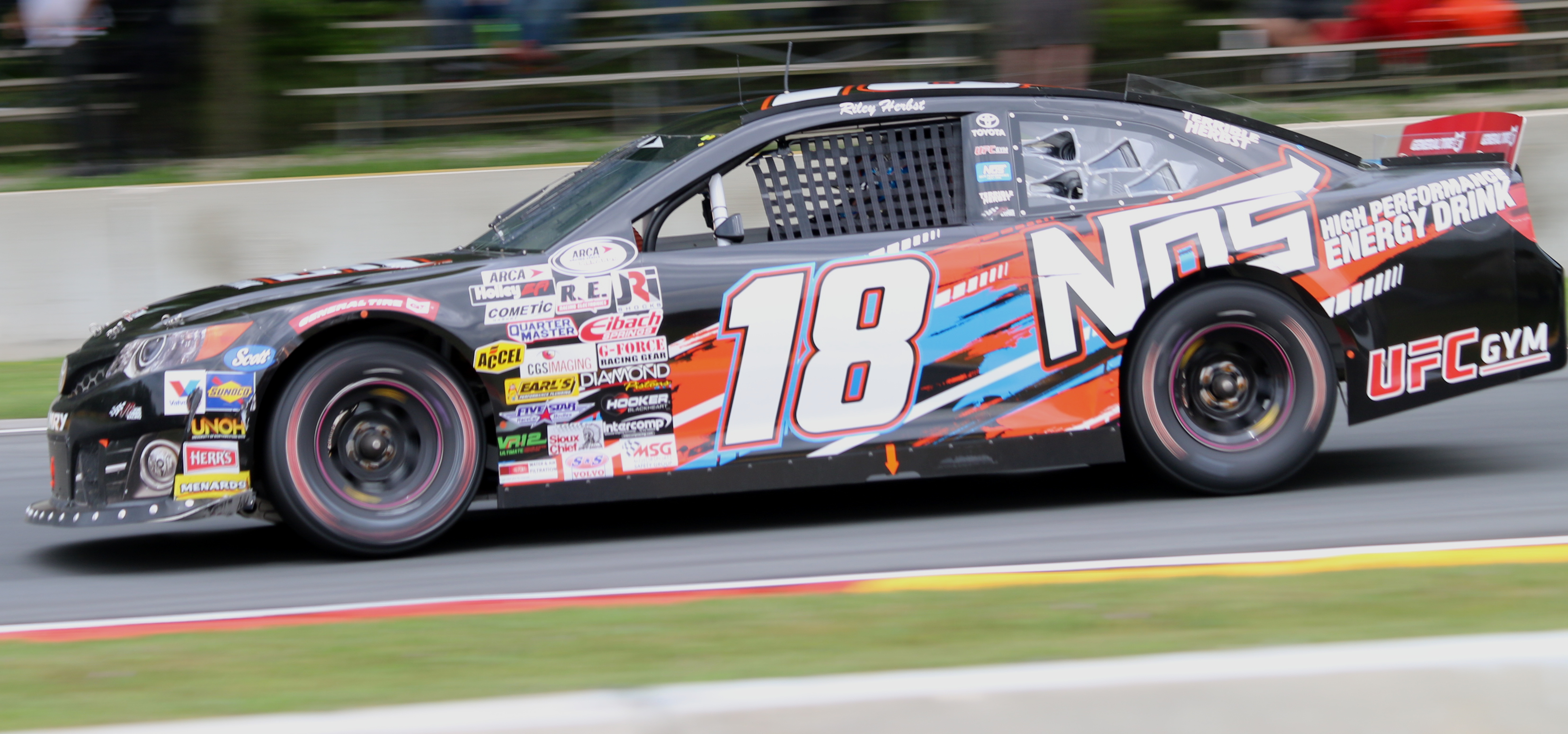 The ARCA Racing Series car of Riley Herbst at the 2017 Road America 100 race.